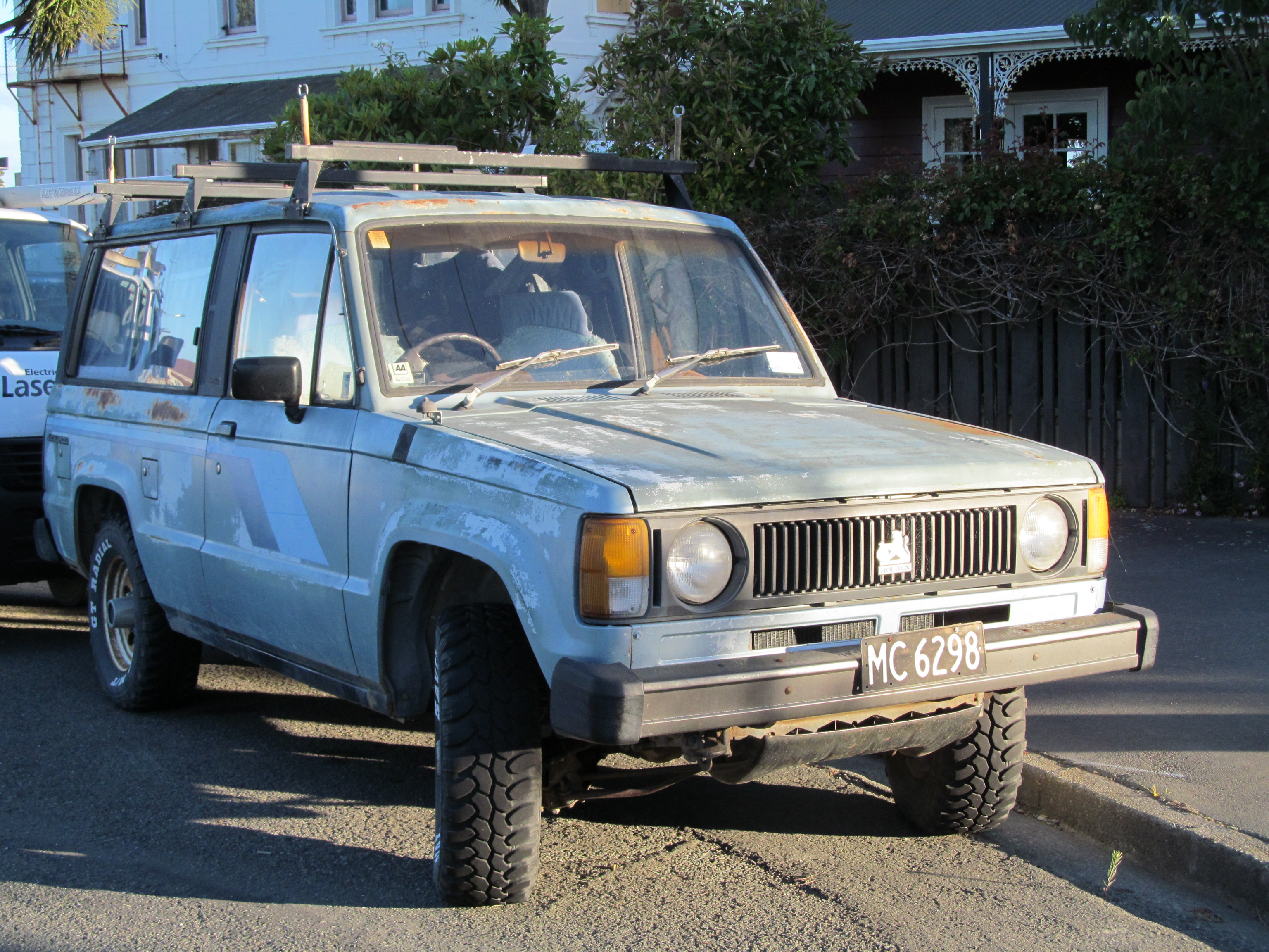 1985 Holden Jackaroo SWB, a rebadged Isuzu Trooper sold in Australia and New Zealand.